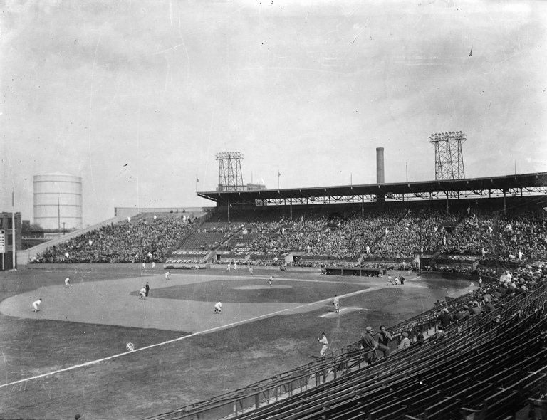 Baseball game at Delorimier Stadium, circa 1933. Photo courtesy of Musée McCord Museum, via Flickr.